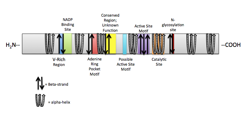 Predicted 2D protein structure of DHRS7B including functional motifs and alpha-helix/beta-strand regions.